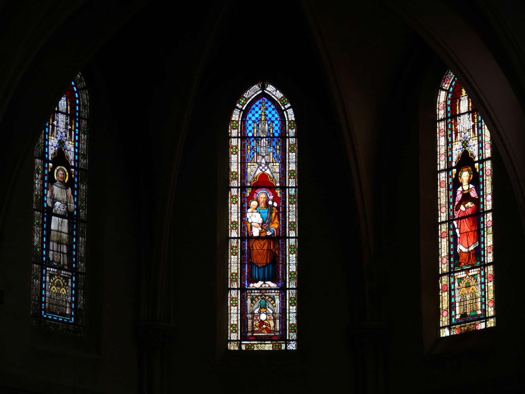 Stained glass in Saint-Joseph-Artisan's church in Paris (Paris X, France)